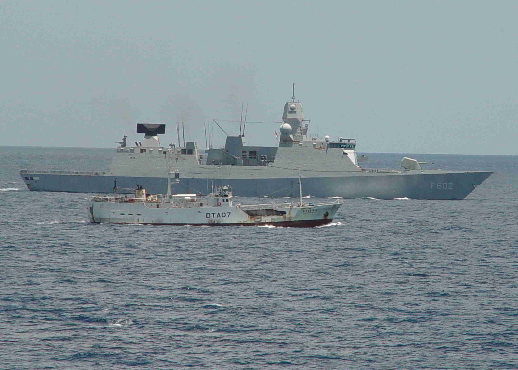 Indian Ocean (April 4, 2006) - South Korean-flagged fishing vessel Dong Won (628), foreground, requested assistance via bridge-to-bridge communications, from coalition ships after it had been fired upon approximately 60 nautical miles off the Somalia coast. Combined Forces Maritime Component Commander (CFMCC), based in Bahrain, immediately directed the Dutch frigate HNLMS De Zeven Provinciën (F802) and the guided-missile destroyer USS Roosevelt (DDG 80) to respond as they conducted maritime security operations in the area. Provinciën and Roosevelt are assigned to Commander Task Force One Five Zero (CTF-150). U.S. Navy photo (RELEASED)